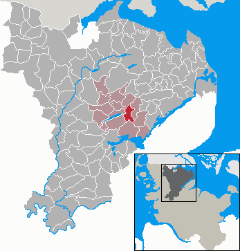 This map shows the area of the Gemeinde (municipality) Tolk in the Kreis (district) Schleswig-Flensburg, Schleswig-Holstein, Germany.